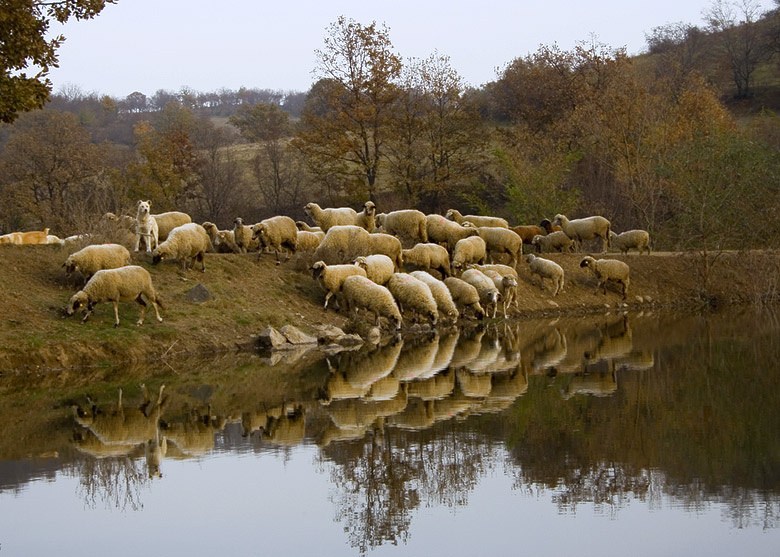 Watering place in/near Burgas, Bulgaria.